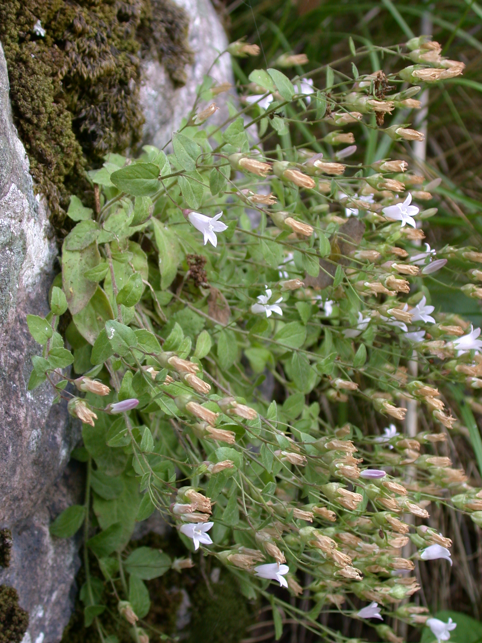 Campanula damascena Labill., Nahal Kziv, Upper Galilee, Israel, May 17 2006.